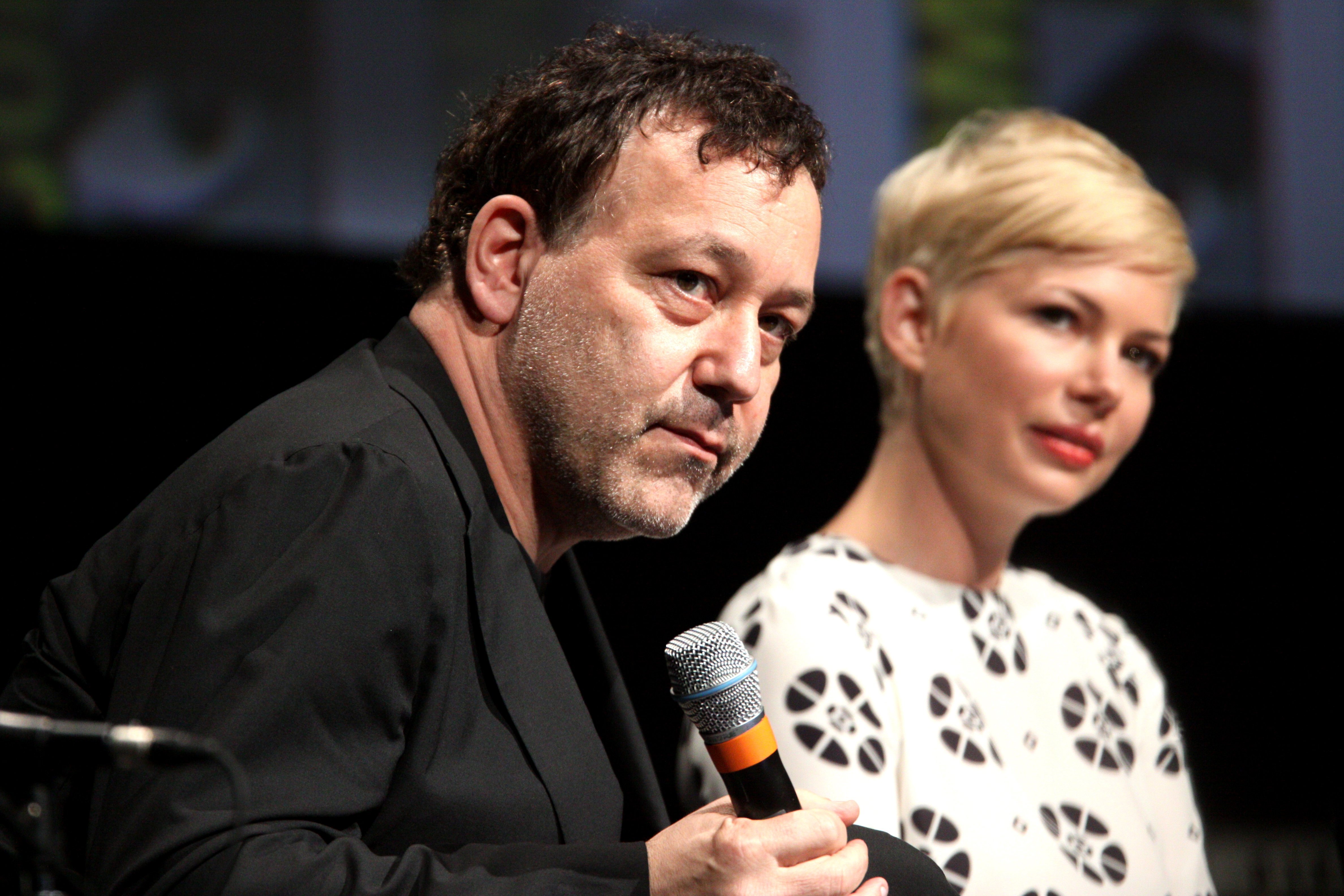 Sam Raimi & Michelle Williams speaking at the 2012 San Diego Comic-Con International in San Diego, California.